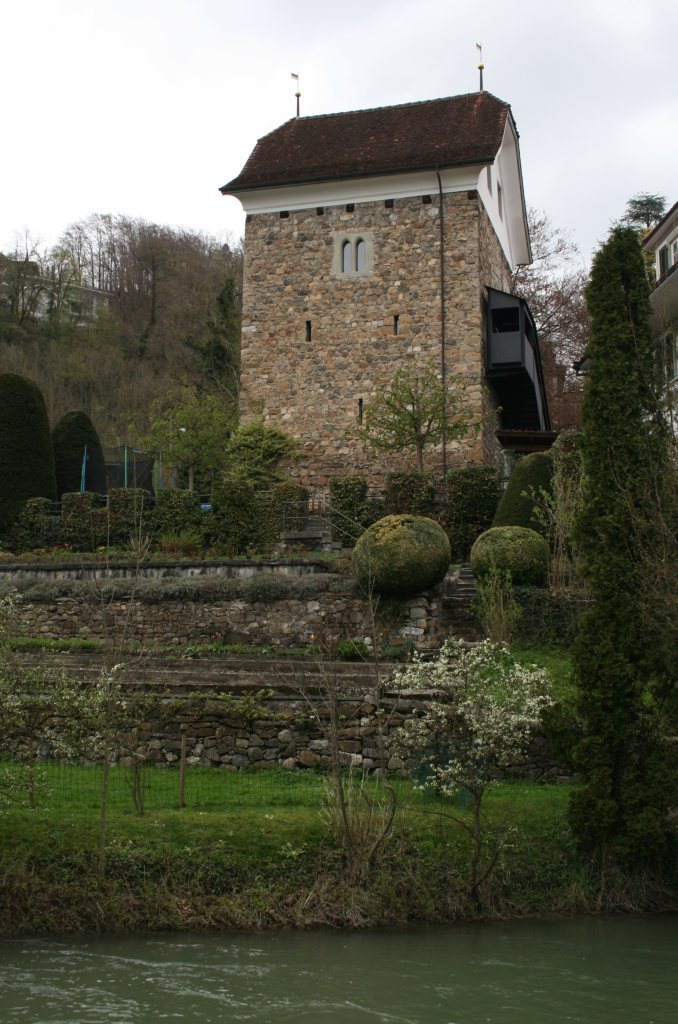 Hexenturm in Sarnen, April 2013